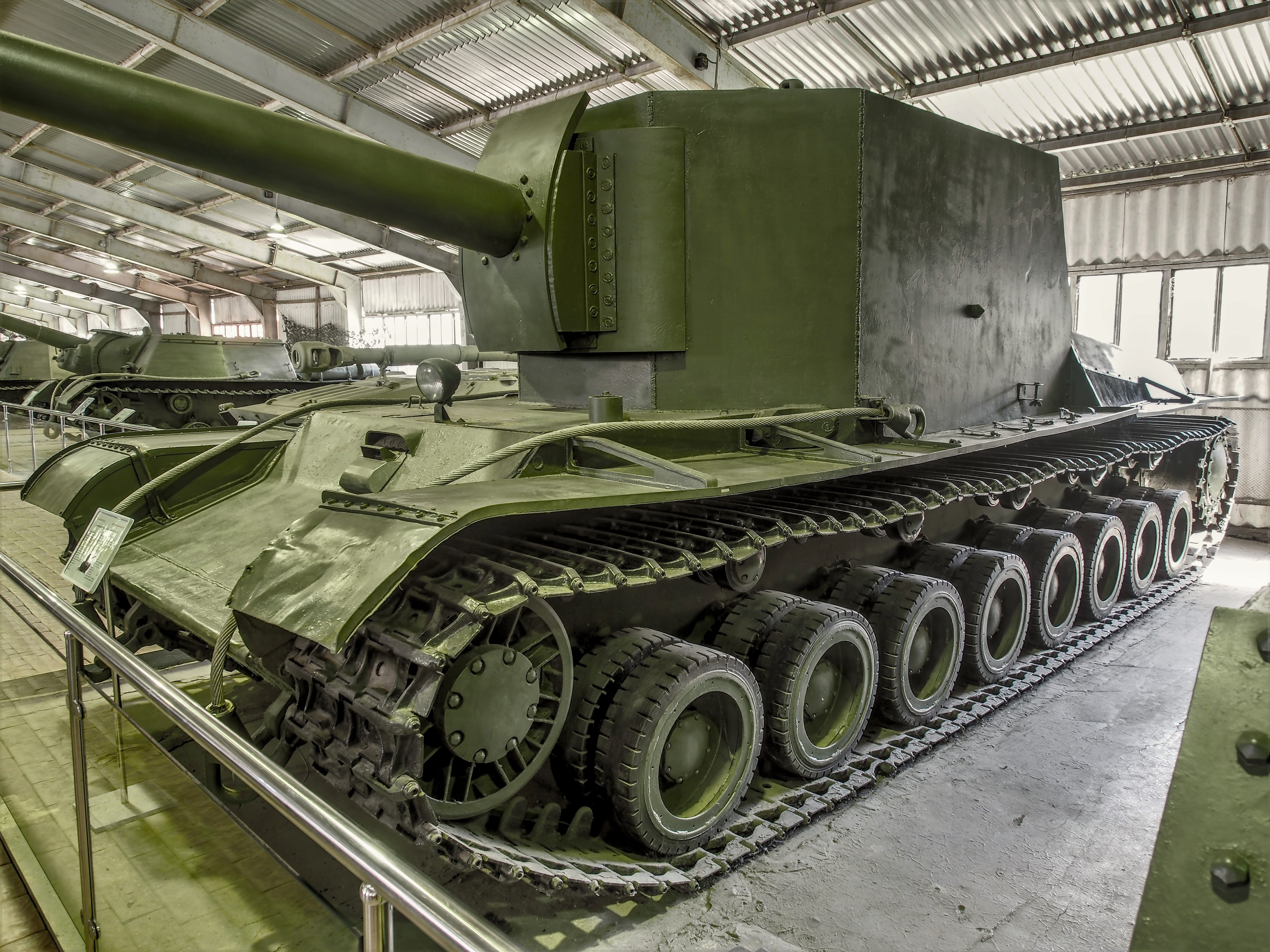 SU-100-Y in the Kubinka Tank Museum.